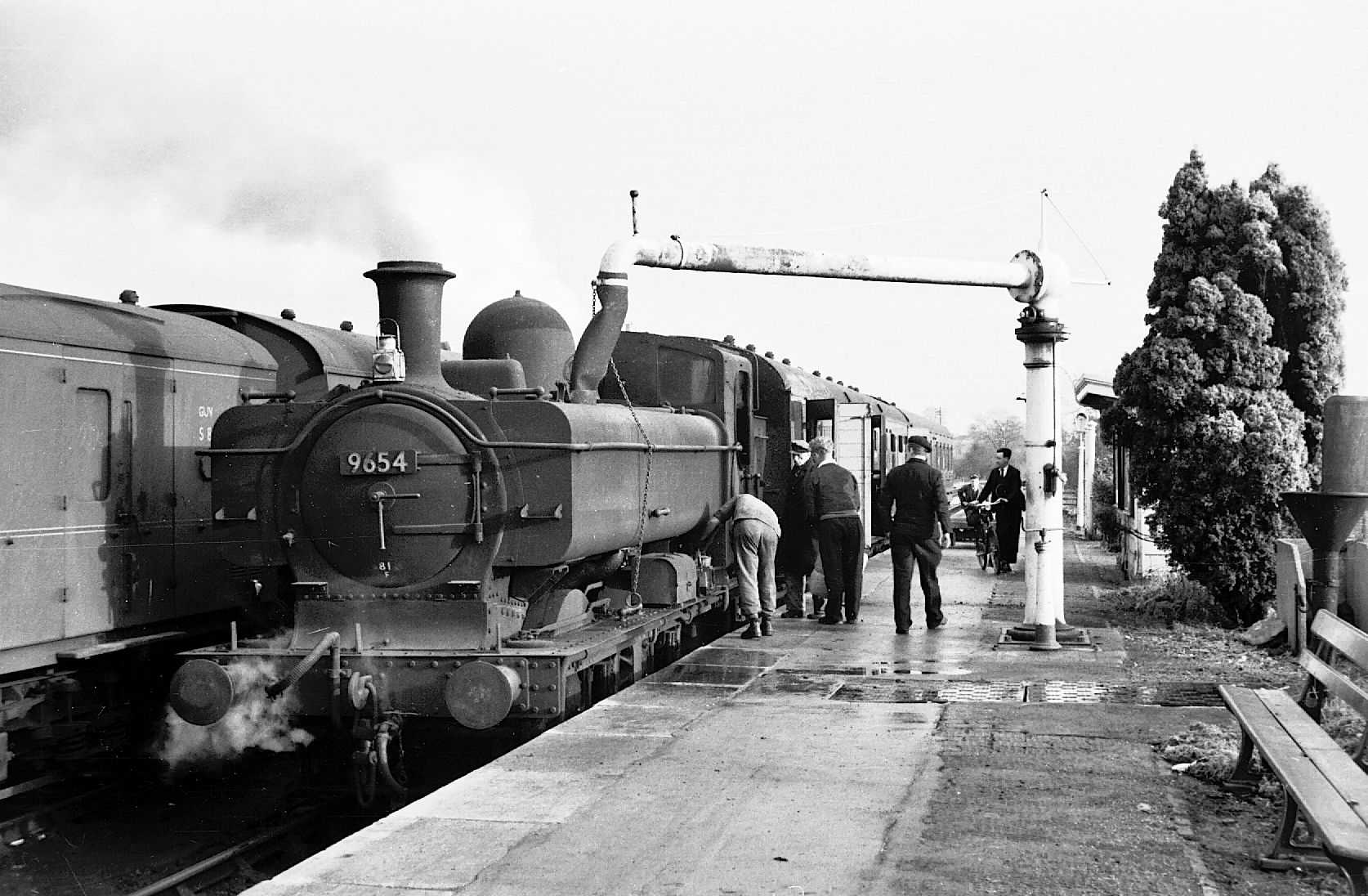 Witney station. GWR 5700 Class No. 9674 taking on water